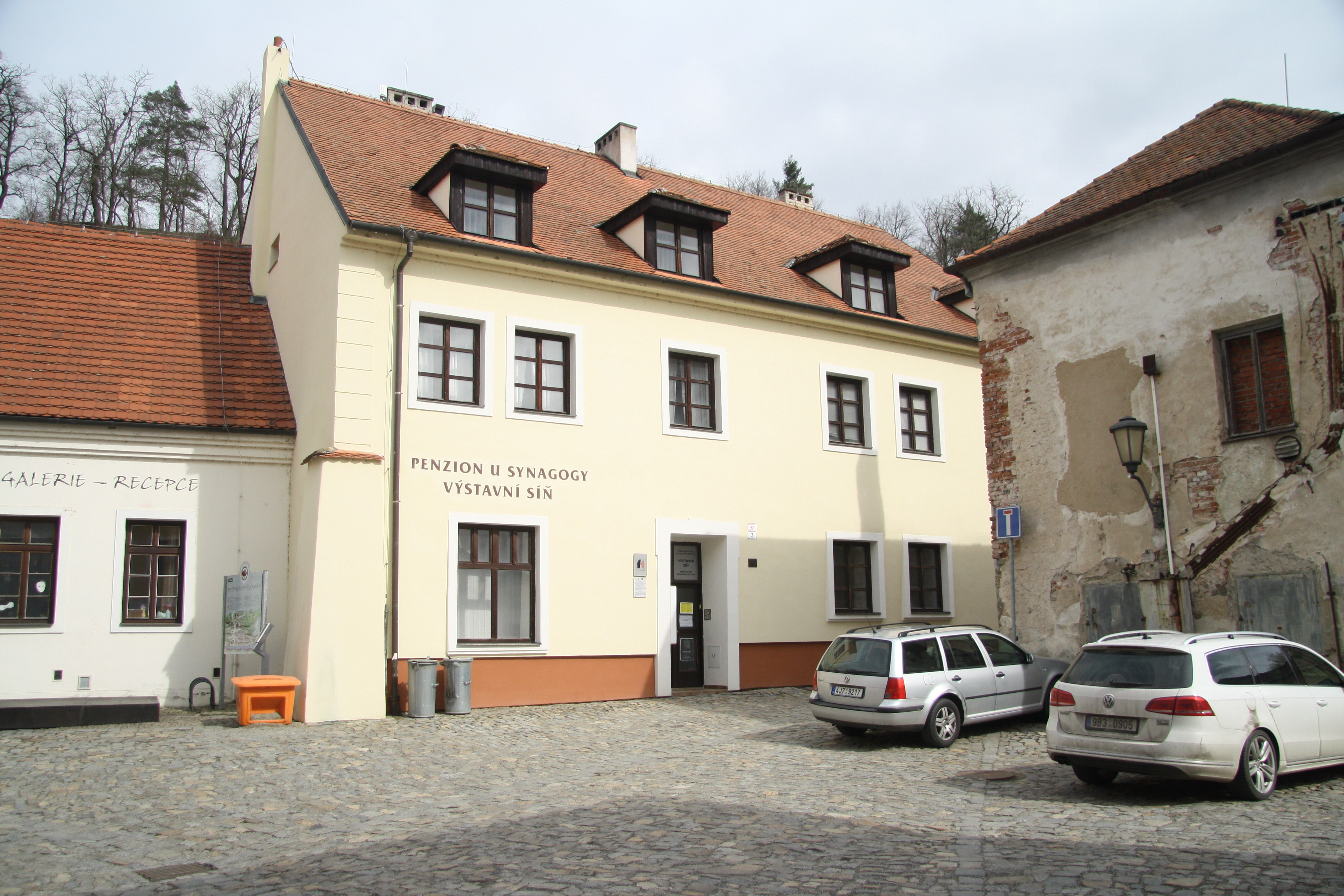 Overview of house Blahoslavova 43 Pension and Galerie Ladislava Nováka in Třebíč, Třebíč District.